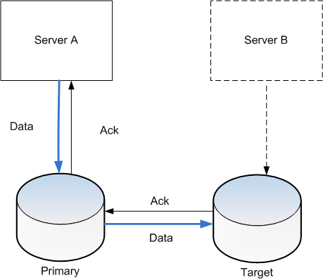 Storage replication